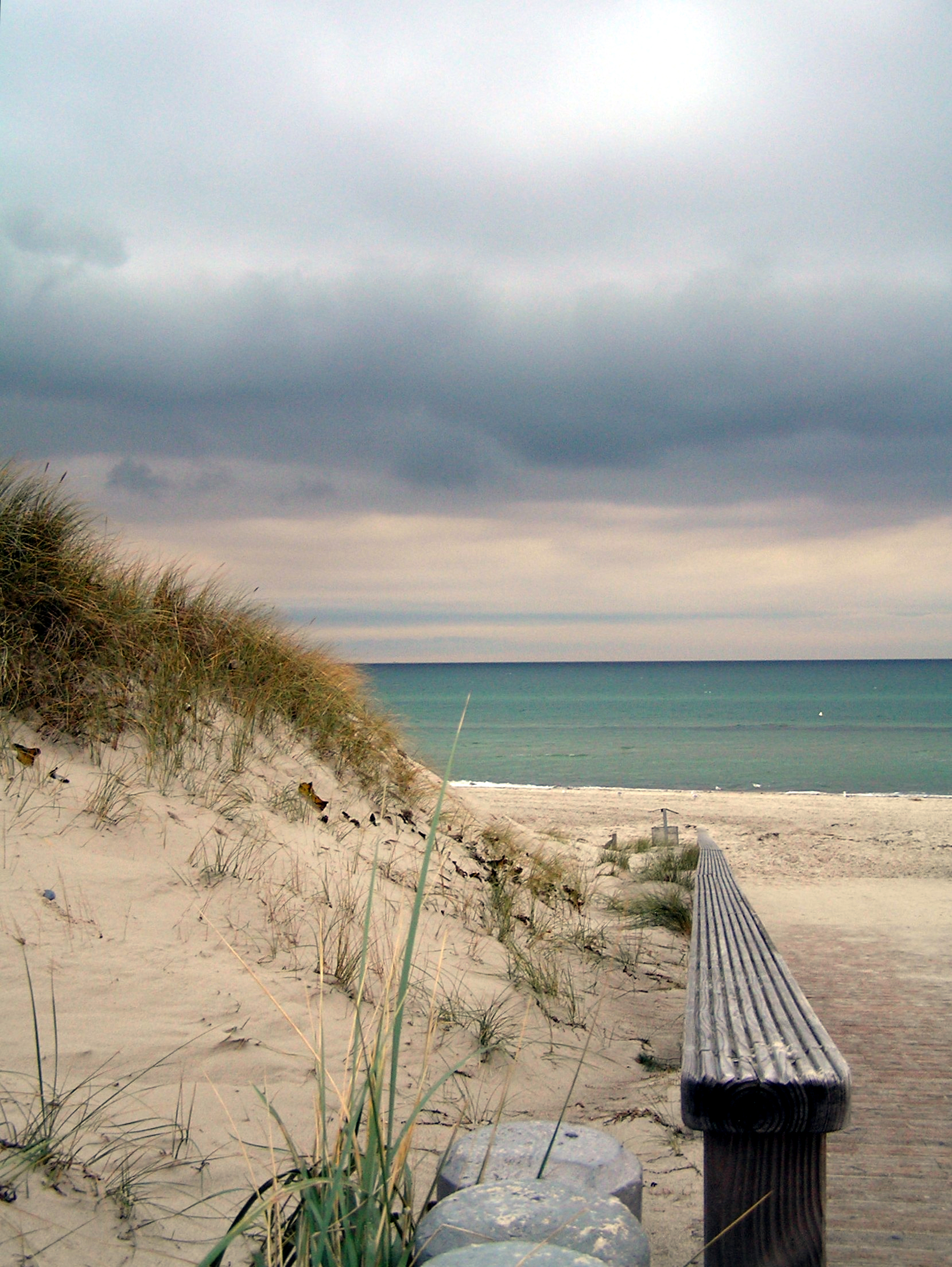 Beach of Dierhagen, Germany. This shows the Baltic Sea, as well as the typical marram grass protecting the sand dune.